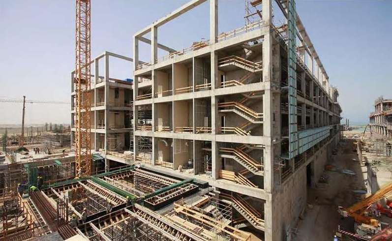 The King Abdullah University of Science & Technology, Saudi Arabia underconstruction.